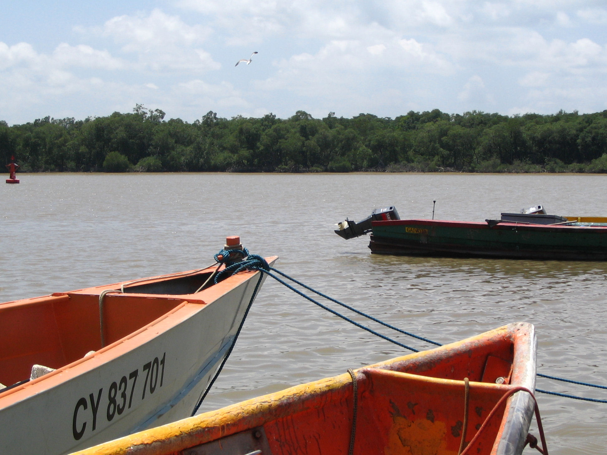 The Kourou River as seen from the port with the Amazonian jungle in the background.